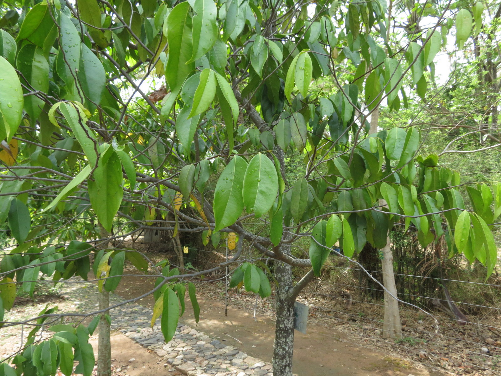 Diospyros bourdilloni seen in Nilgiri biosphere nature park, anakatty, coimbatore on 4th may 2014